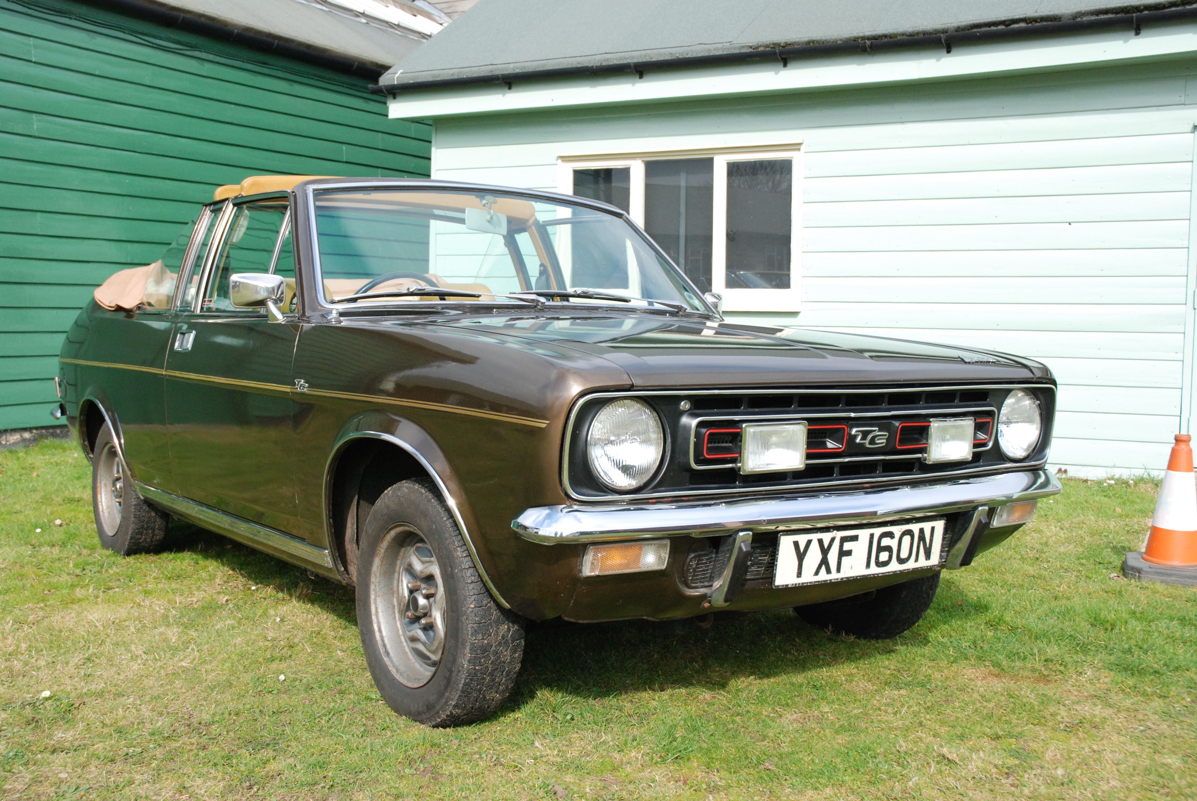 Austin-Morris day,Brooklands,Mar 2012